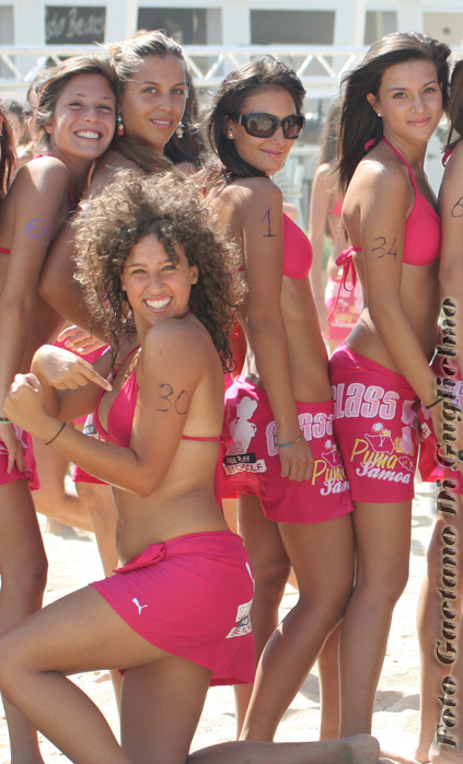 Beach Golf's Caddy Girls